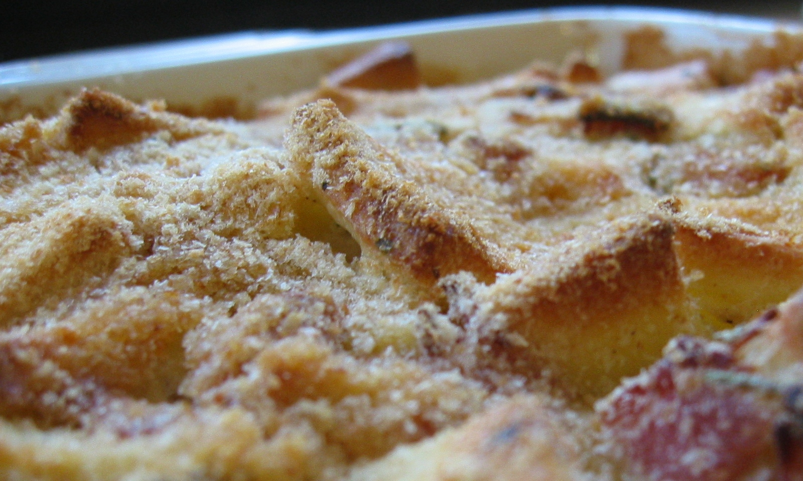 Schinkenfleckerl detailed view